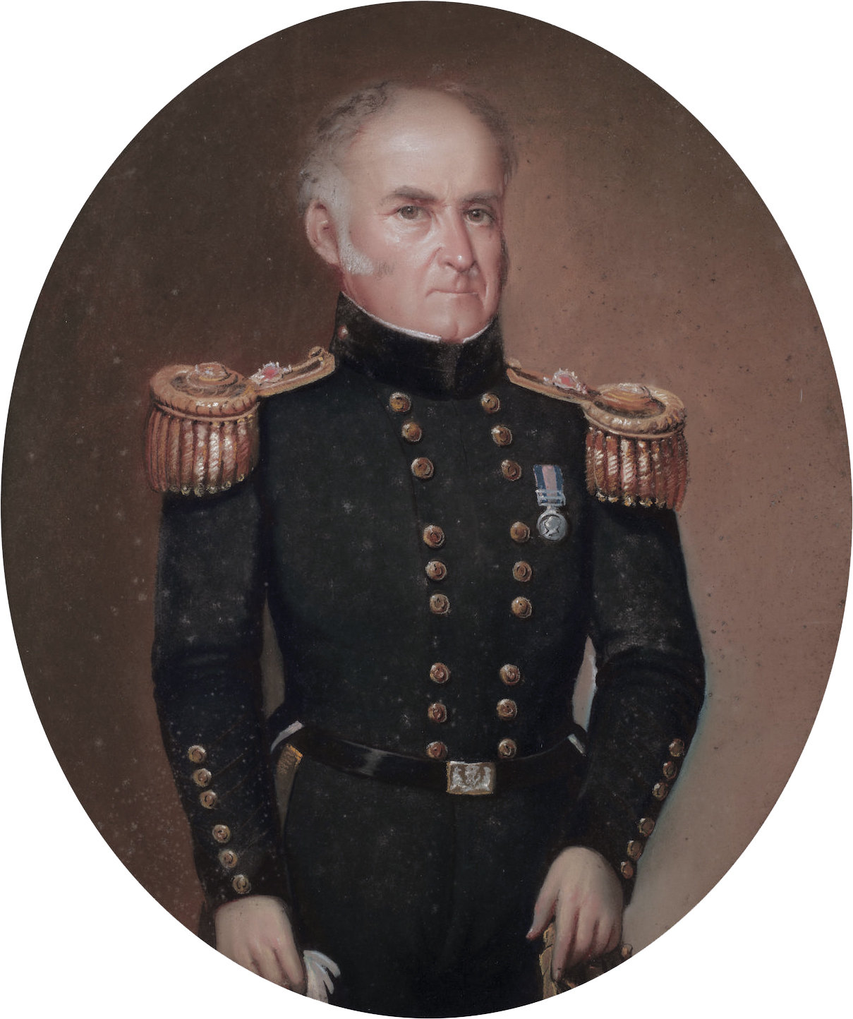 James Laidley (Perthshire, Scotland, 1786-1835), Deputy Commissary General and also head of the Commissariat Department in New South Wales pastel 47 x 40cm early 19th Century (James Laidley is noted for the range of positions he held in British colonial governments around the world. He was appointed a deputy Assistant Commissary General in 1810 and served in the Peninsular War before being promoted in 1814 and moving to the West Indies. Following this, he worked briefly in Canada before taking up the position of Deputy Commissary General and Head of the Commissariat Department in Mauritius in 1825. In 1827, with the same title he would move to New South Wales where he held this position for the eight years up to his death. The obituary which accompanies this work makes clear the high esteem with which Laidley was held.)